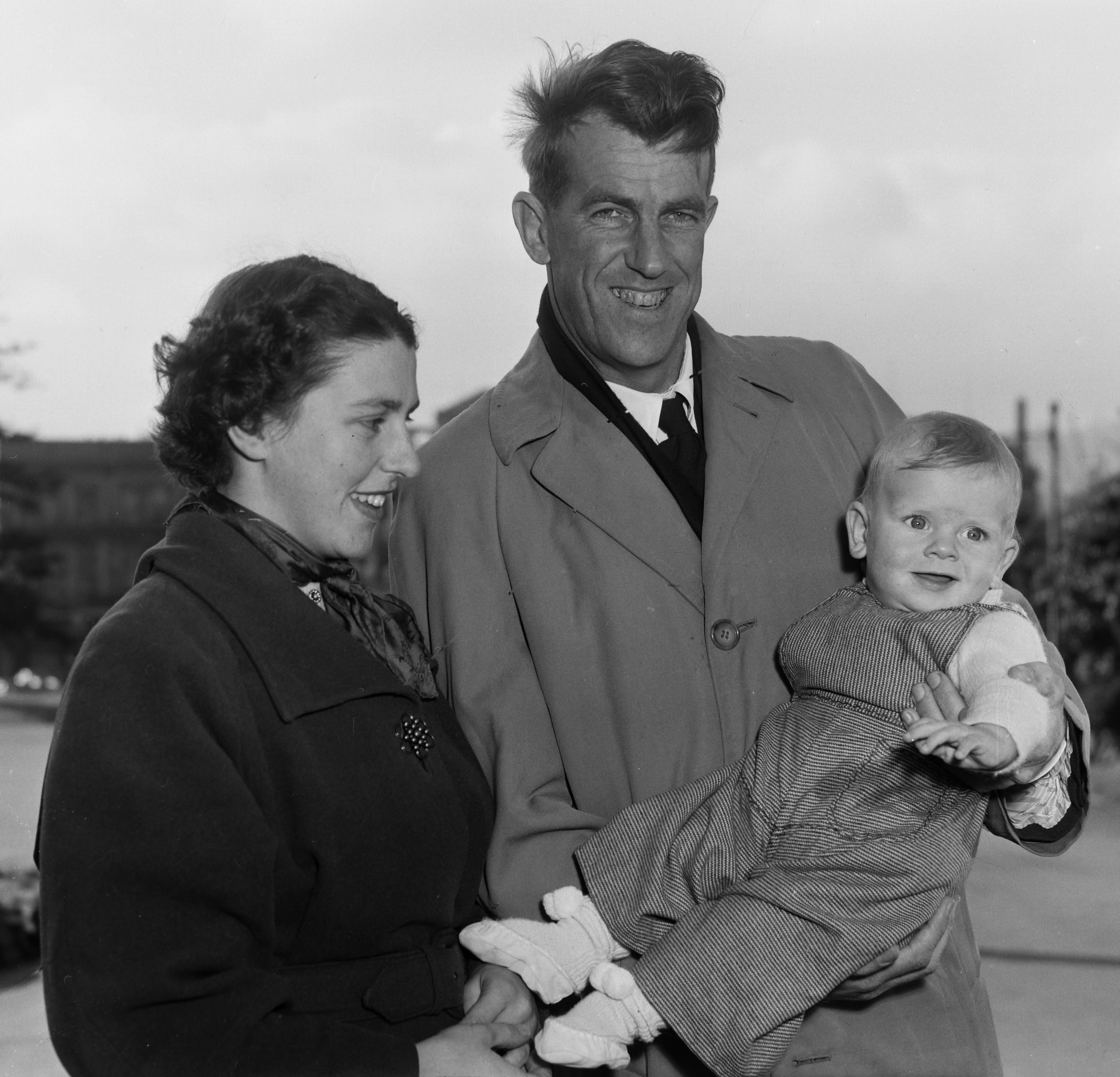 Sir Edmund and Lady Louise Hillary with their son Peter, 1955. Photograph taken for The Evening Post by an unidentified staff photographer. Physical Description: Cellulosic film negative, 6.5. 6.5 cm.